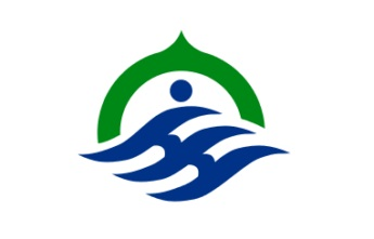 Flag of Hodatsushimizu Ishikawa